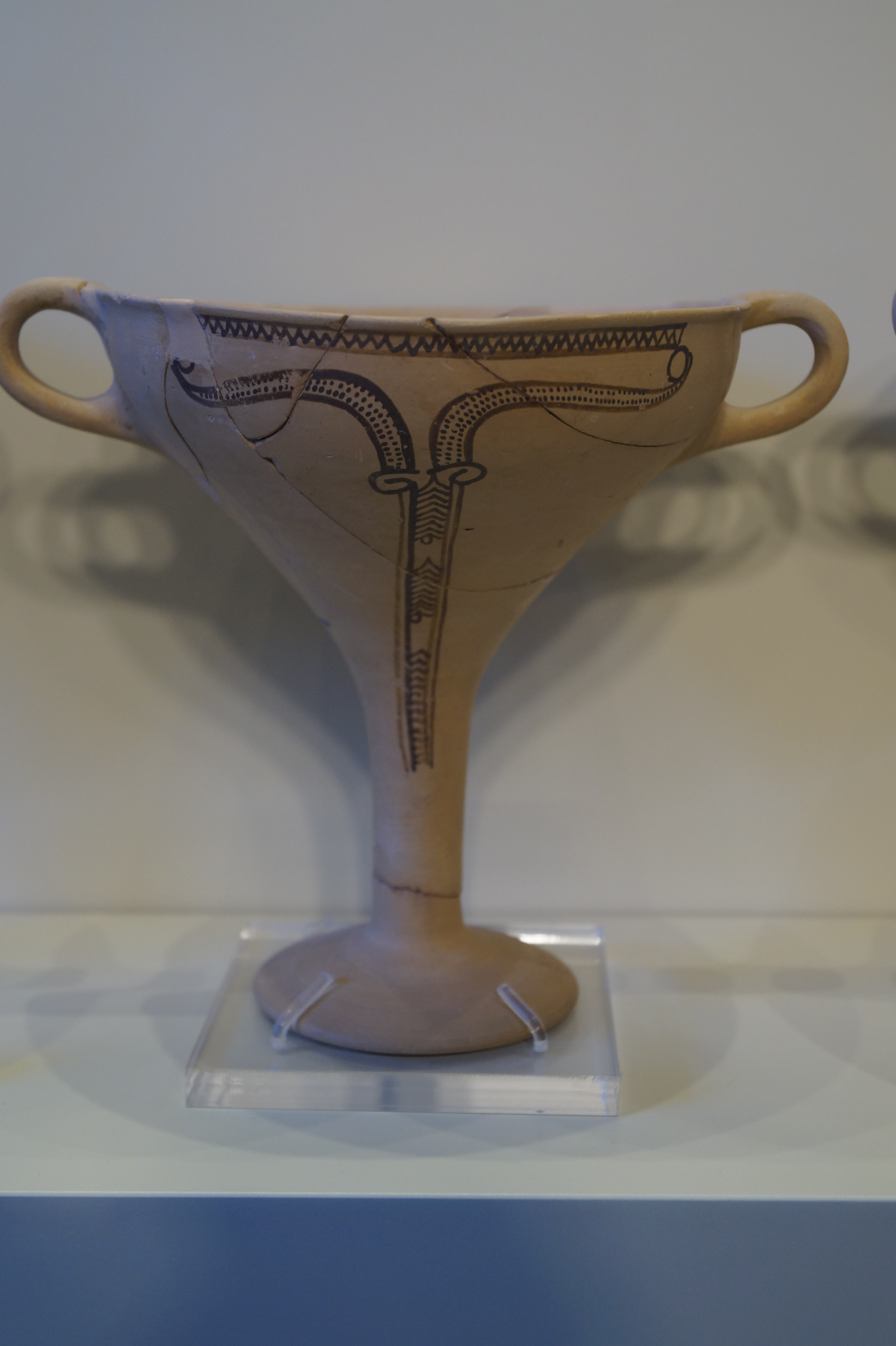 Archaeological Museum of Corinth, Corinthia, Greece: Mycenaean Zygouries kylix from house B in Zygouries. (LH III B, 1300-1180 BC)